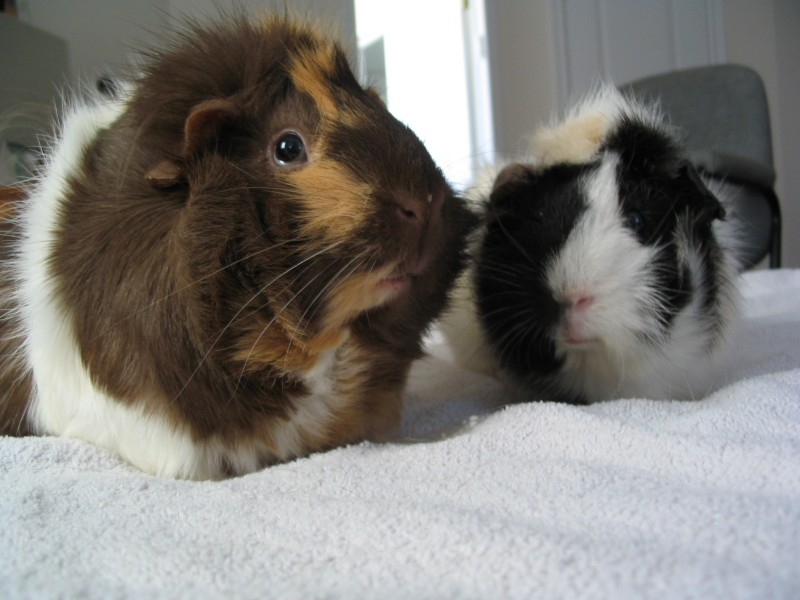 Two abyssinian guinea pigs (Cavia porcellus).